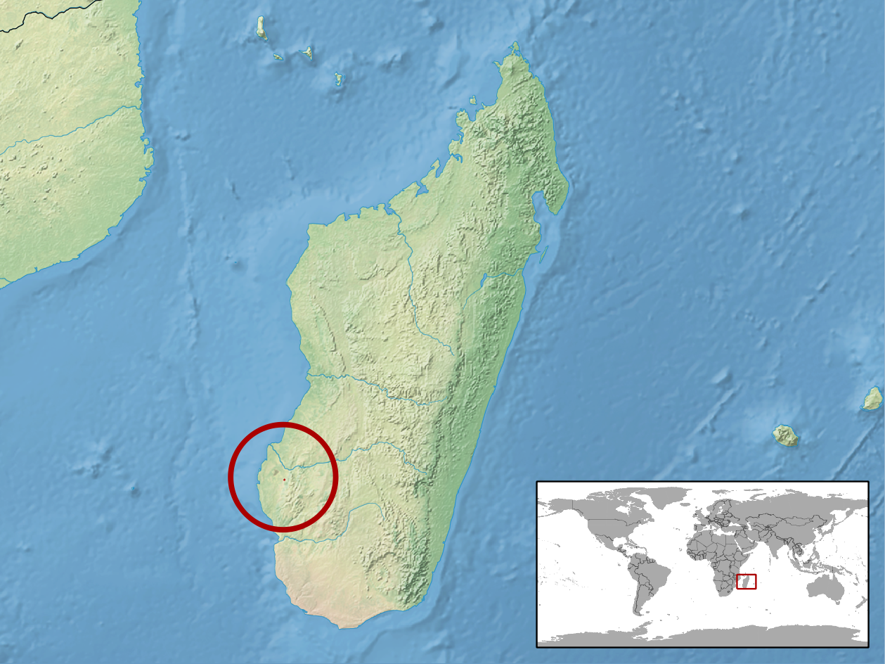 geographic distribution of Furcifer tuzetae (Native: Madagascar)